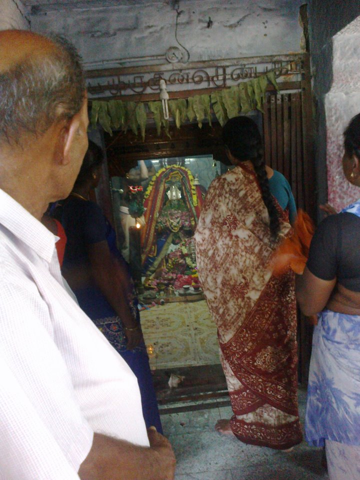 People Worship during festival.